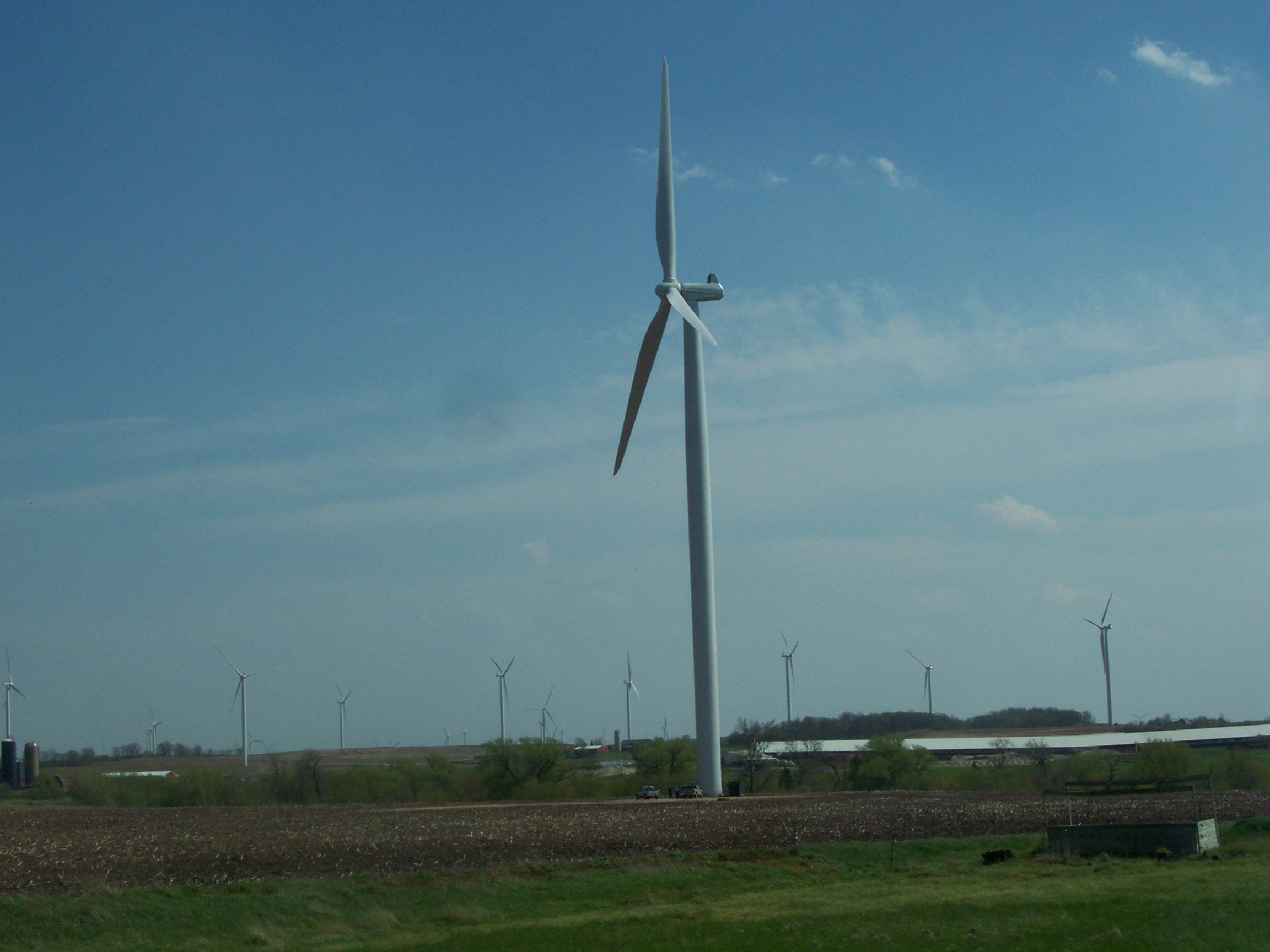 Looking south at the Blue Sky Green Field Wind Farm from the Calumet County border